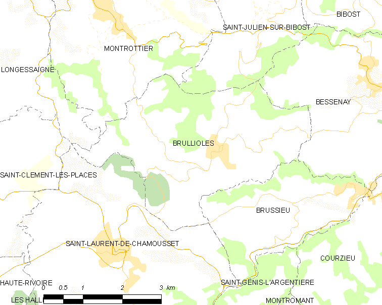 Map of French municipality